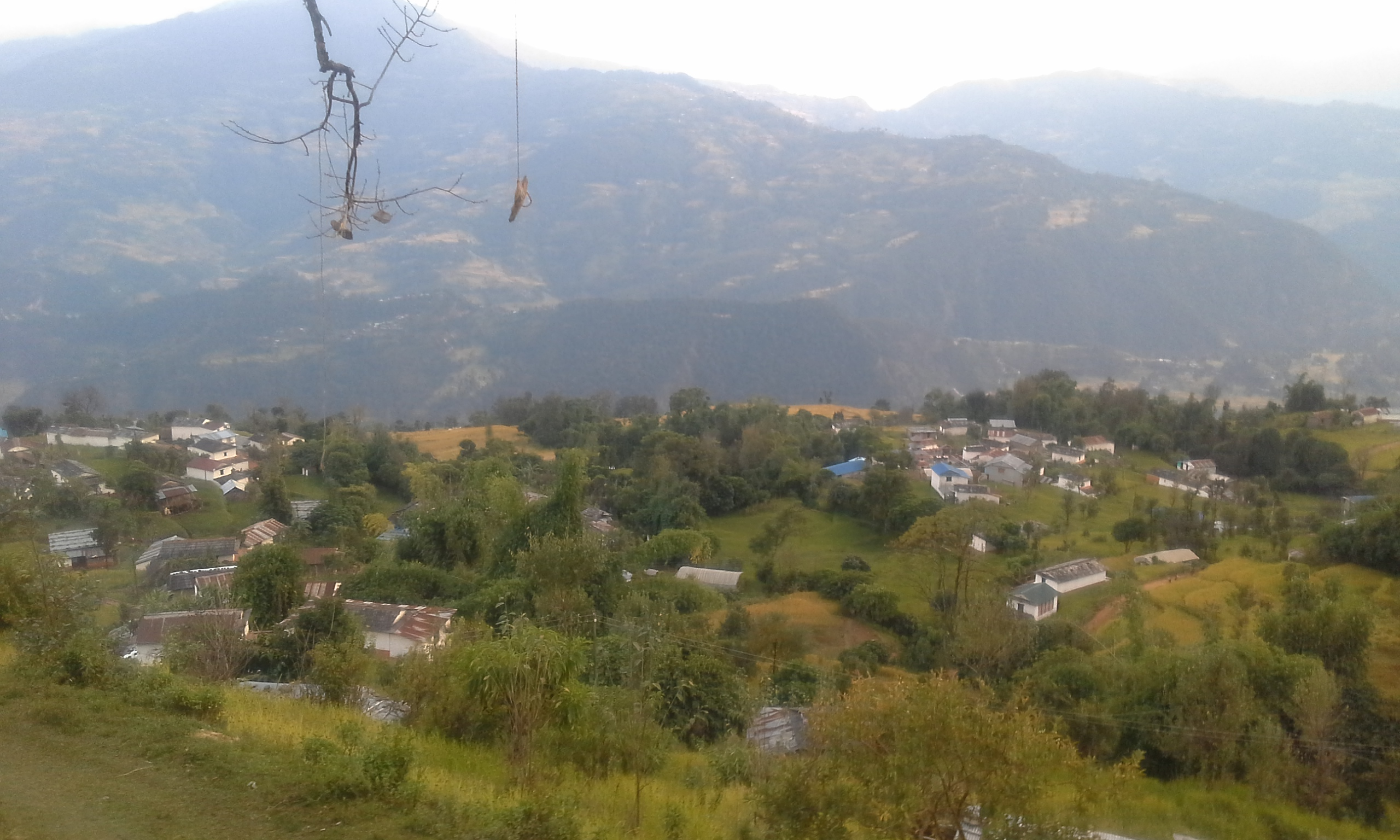 This is the view of Bajung VDC as seen from Bajung Kot.